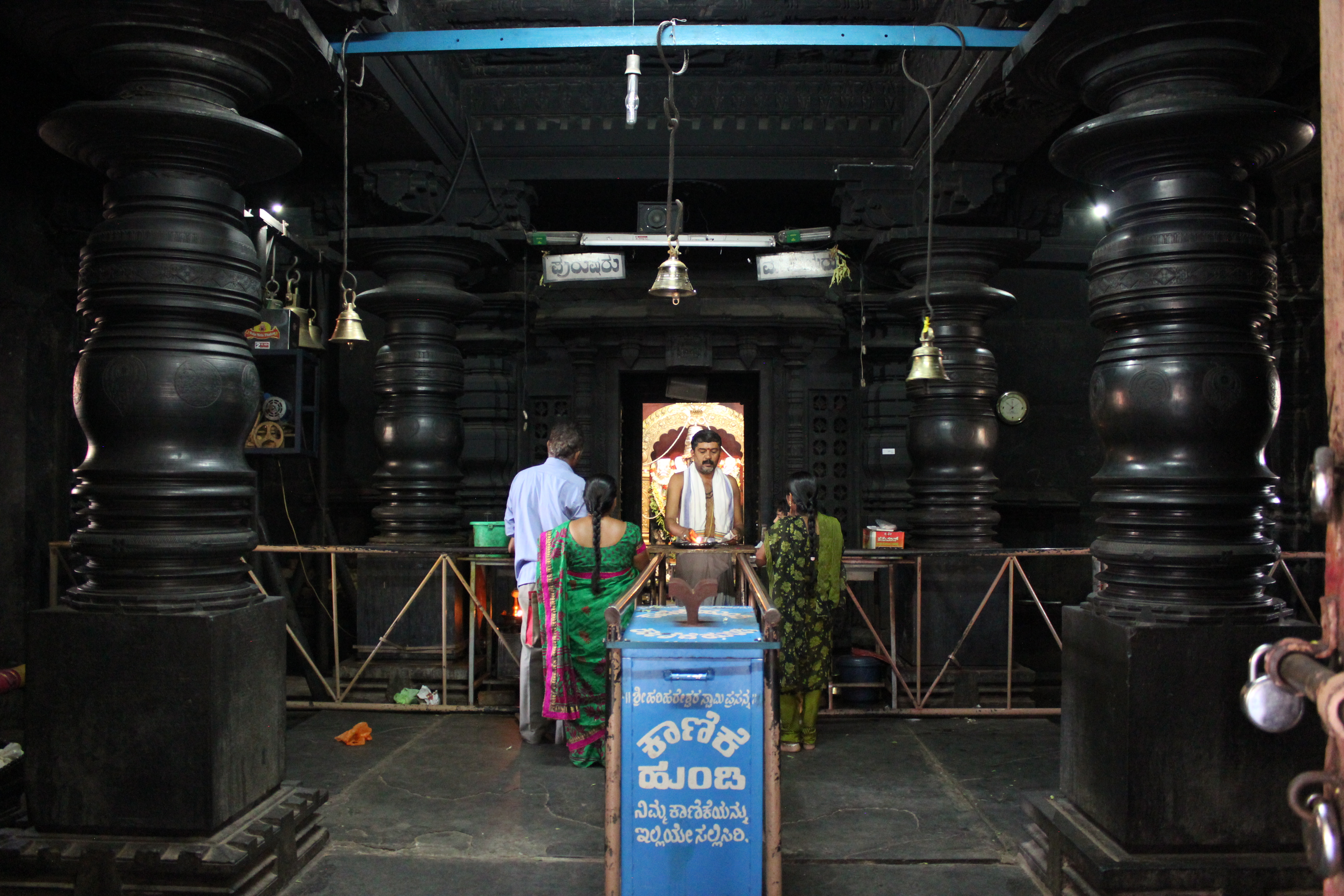 This photograph was taken by me in Harihar, Davangere district, Karnataka state, India. The Harihareshwara Temple at Harihar in was built in c.1223–1224 CE by Polalva, a commander and minister of the Hoysala Empire King Vira Narasimha II.